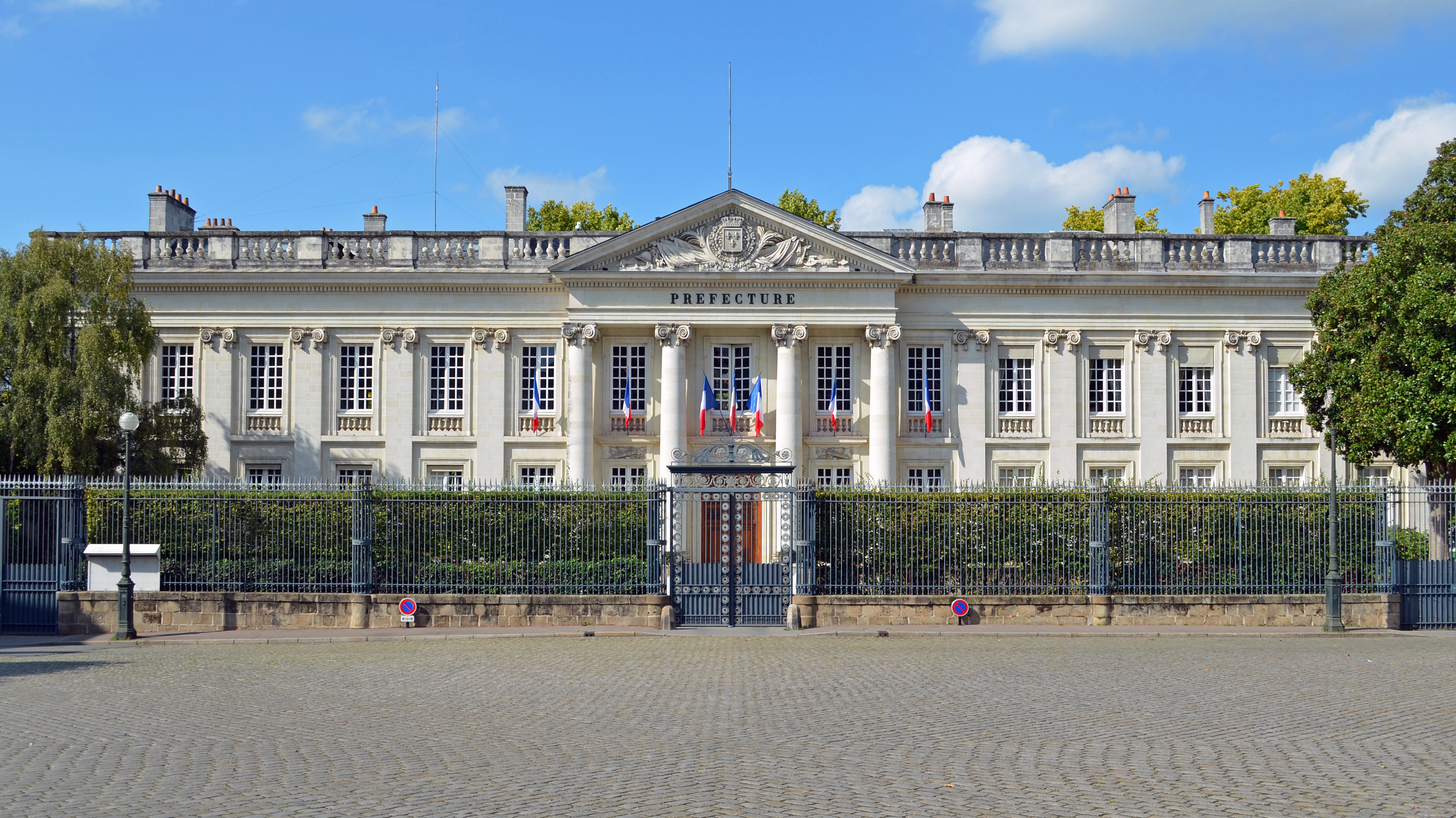 Prefecture building, conceived by Jean-Baptiste Ceineray and built between 1759 and 1781 - Nantes .